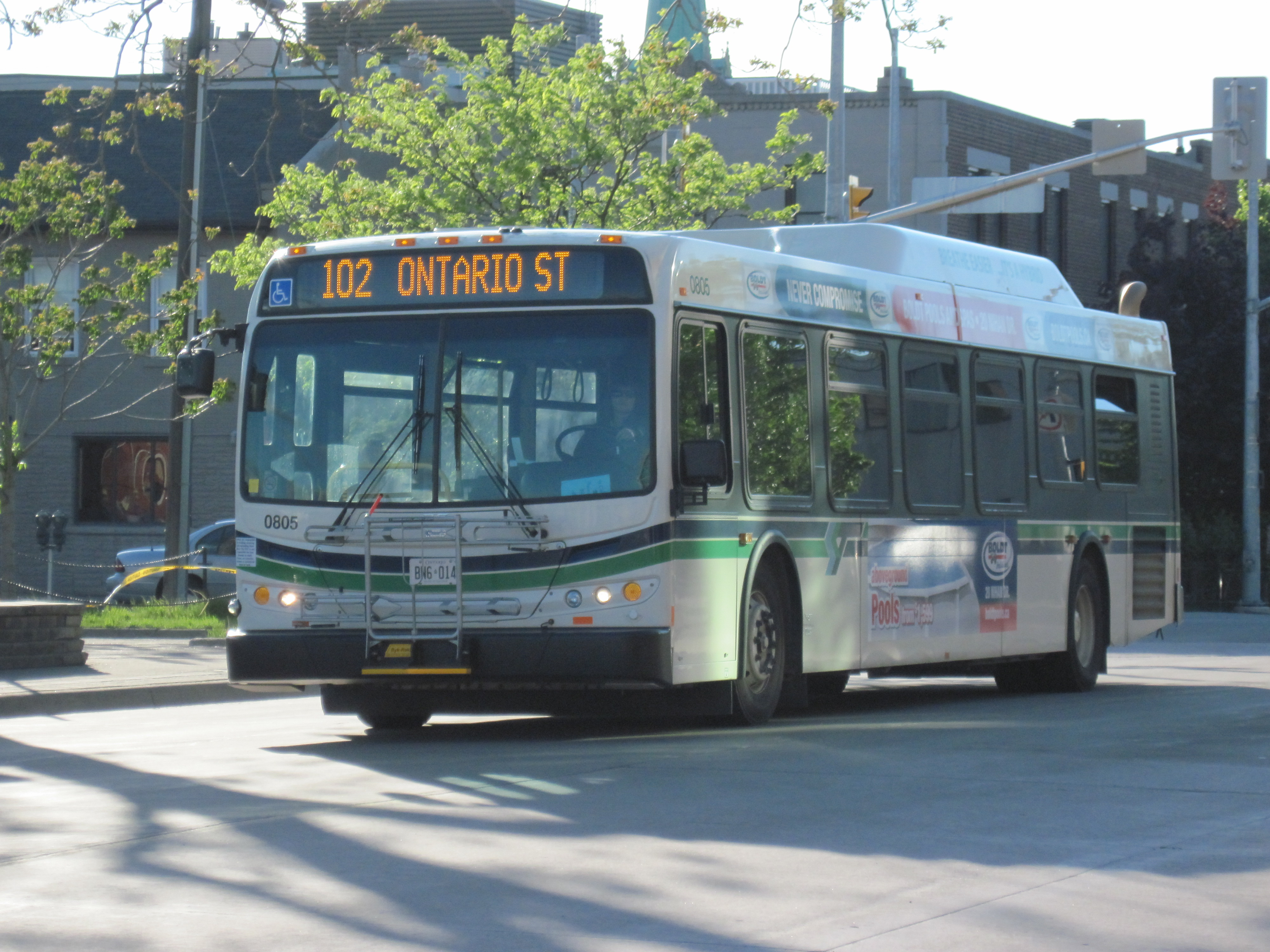 A St. Catharines Transit New Flyer DE40LFR bus comes off Route 115 West St. Catharines and turns into Route 102 Ontario Street as it waits to enter the Downtown Terminal off King Street.